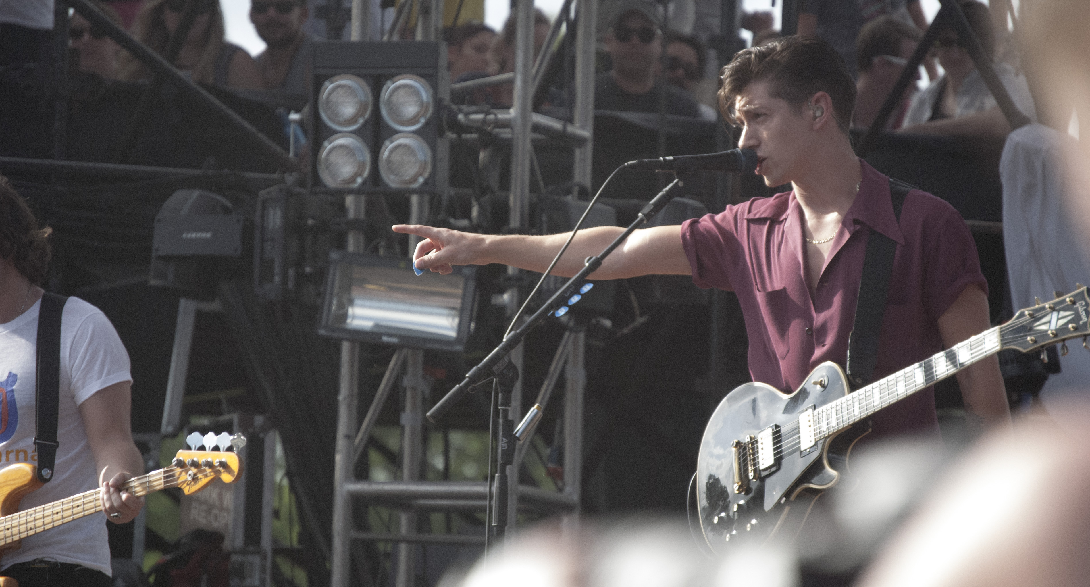 Arctic Monkeys